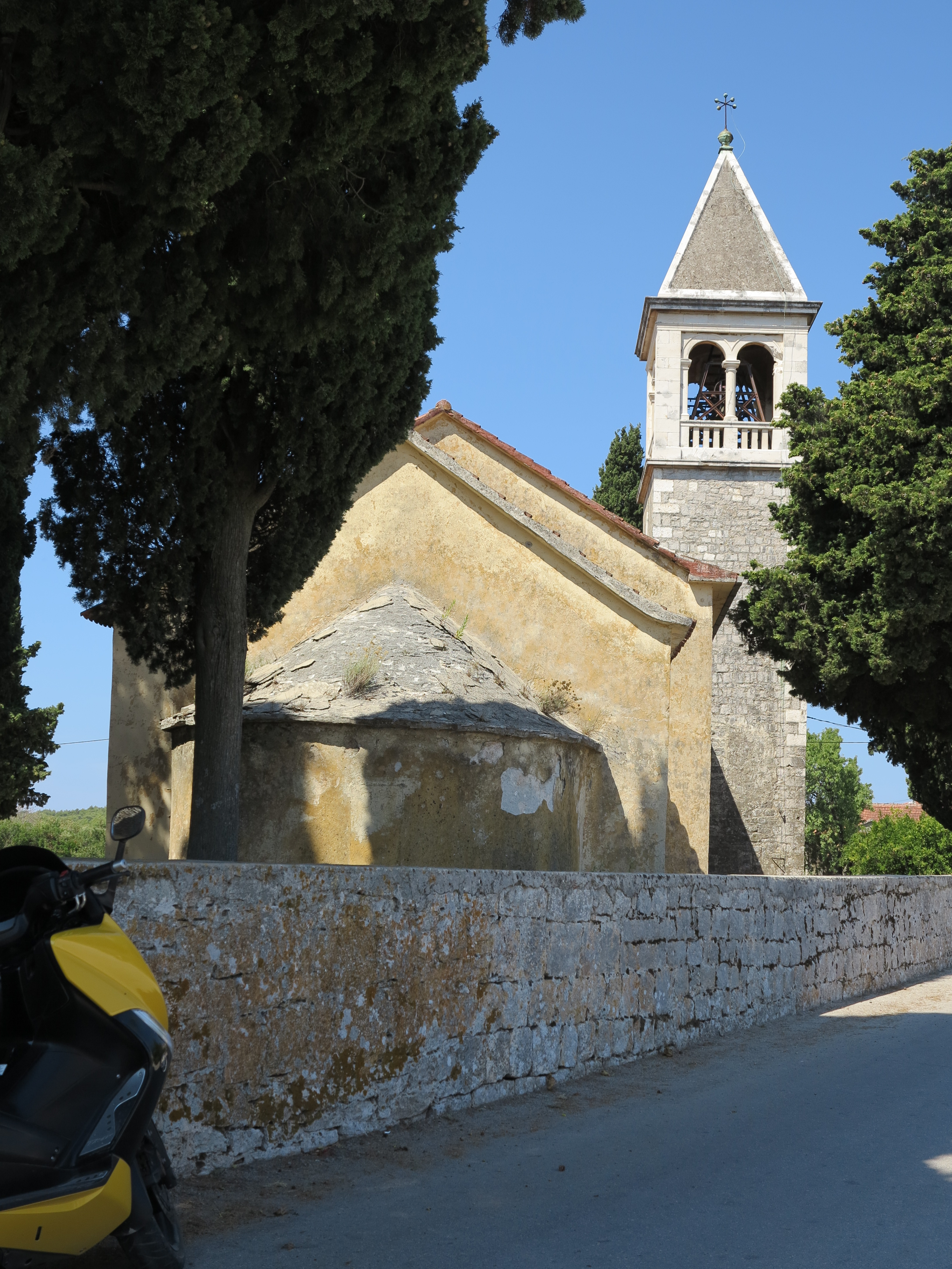 Donje Selo on the island Šolta / Croatia / Adriatic Sea. View to the west.